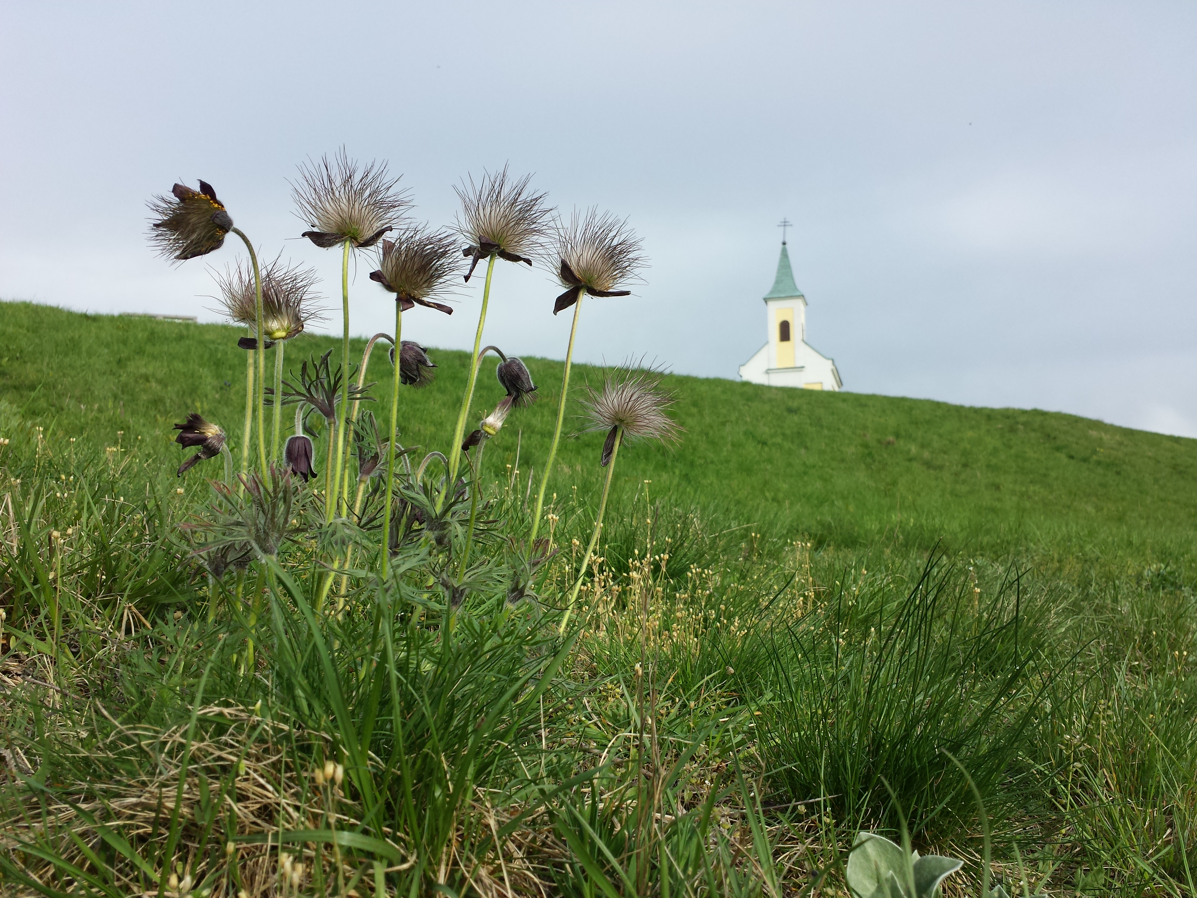 Habitus with fruits Taxonym: Pulsatilla pratensis subsp. nigricansss Fischer et al. EfÖLS 2008 ISBN 978-3-85474-187-9 Location: Michelberg, district Korneuburg, Lower Austria - ca. 409 m a.s.l. Habitat: semi dry grassland